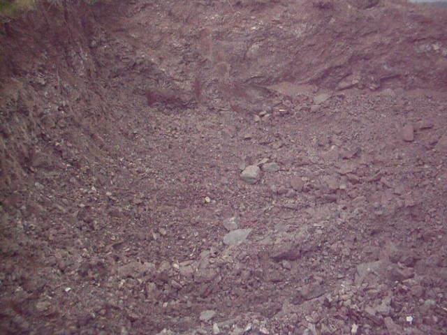 The foundation is set on this solid rock layer . Dynamite blasting is needed to reach a depth of 30 ft..